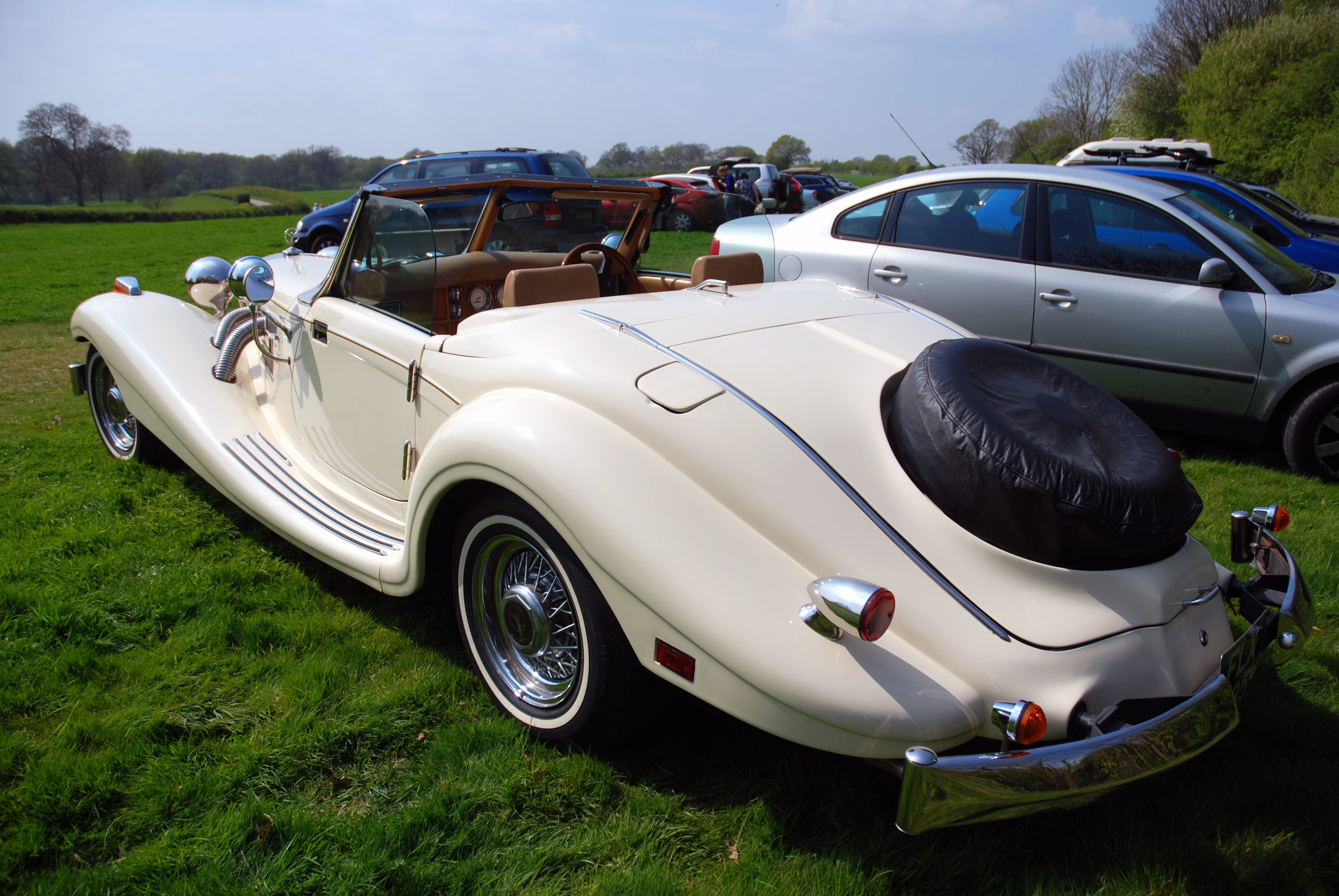 in the car park at Sissington Castle,Apr 2011